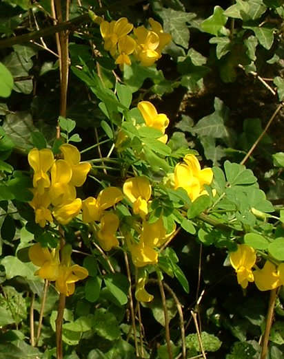 Colutea arborescens photo by Jeffdelonge 06:42, 8 May 2006 (UTC) Larnod 25 France mai 2006